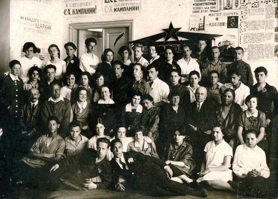 Kurkin S.A.